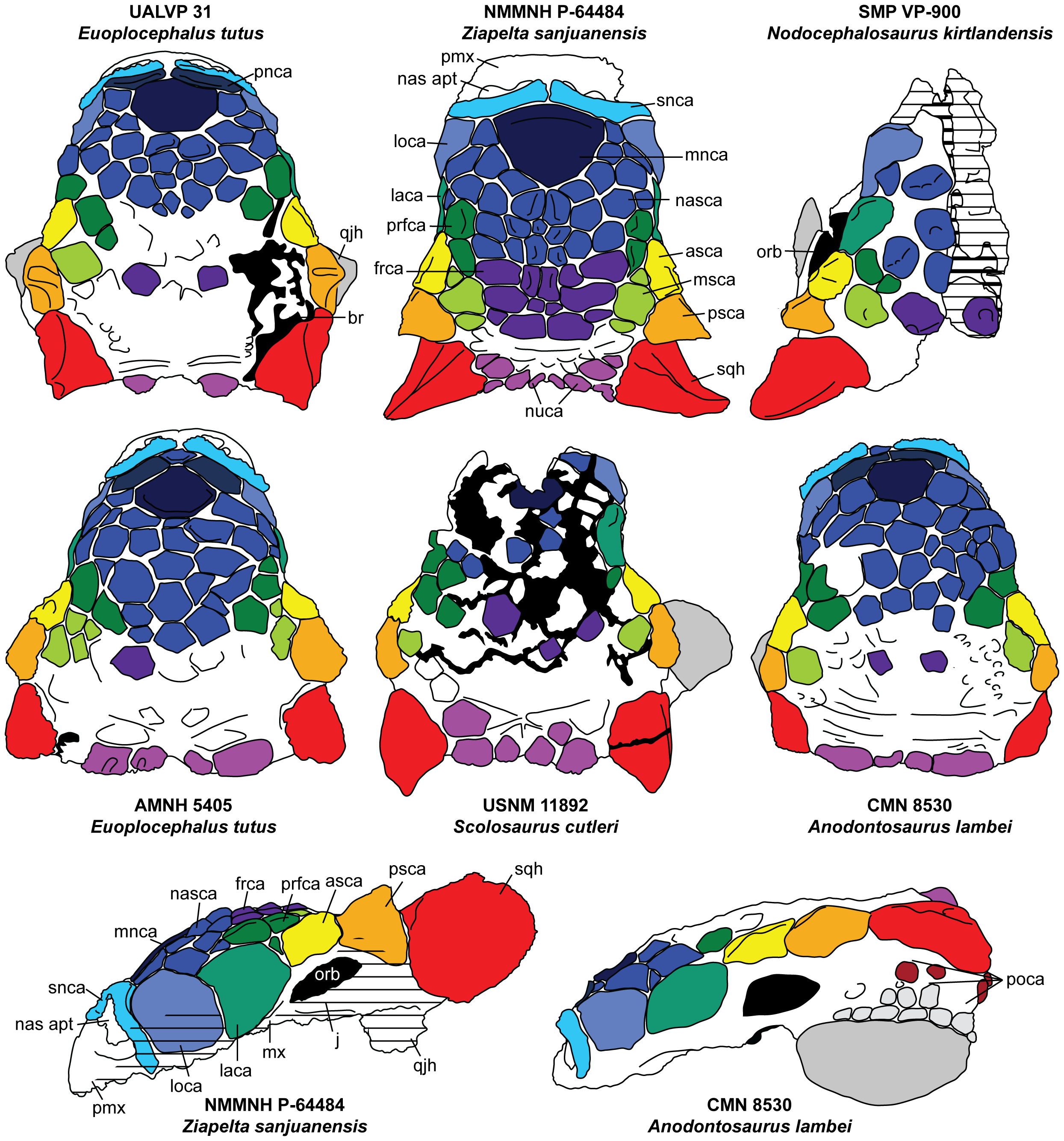 Skull of Ziapelta sanjuanensis compared to those of other North American ankylosaurids. Interpretive diagrams scaled to approximate same cranial length (from the anterior edge of the premaxilla to the posterior edge of the nuchal crest) for comparative purposes. Abbreviations: asca, anterior supraorbital caputegulum; br, break/plaster; frca, frontal caputegulum; j, jugal; laca, lacrimal caputegulum; loca, loreal caputegulum; mnca, median nasal caputegulum; msca, medial supraorbital caputegulum; mx, maxilla; nas apt, nasal aperture; nasca, nasal caputegulum; nuca, nuchal caputegulum; orb, orbit; pmx, premaxilla; pnca; postnarial caputegulum; poca, postorbital caputegulum; prfca, prefrontal caputegulum; psca, posterior supraorbital caputegulum; qjh, quadratojugal horn; snca, supranarial caputegulum; sqh, squamosal horn.